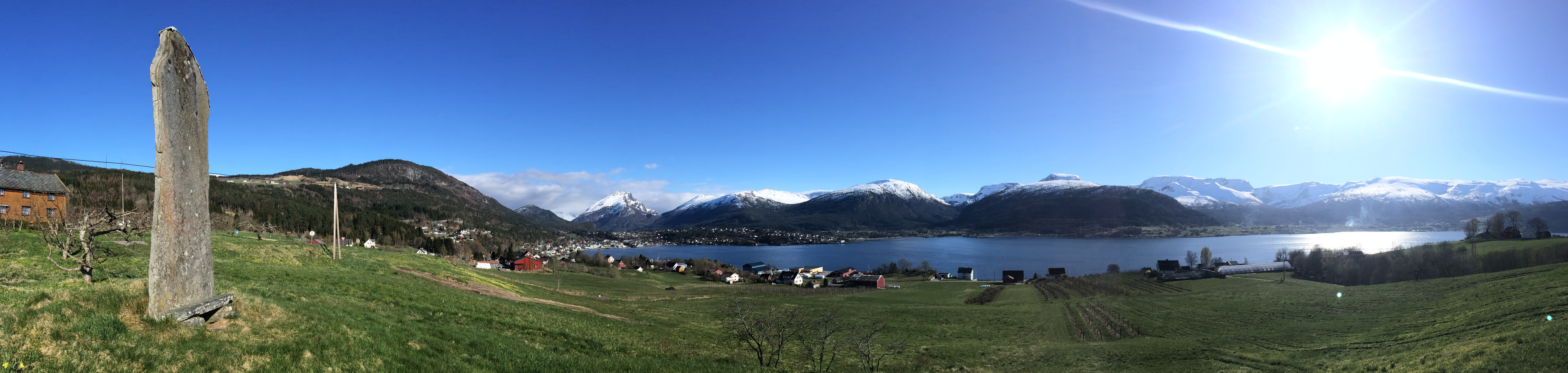 Fold-out-panorama of Sandane and Gloppefjorden in Sogn og Fjordane, Norway. April 21th, 2015. (iPhone panoramic photo, distortion may occur in details and continuity.)